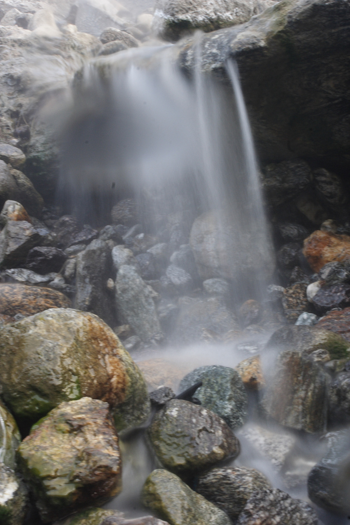 A waterfall in Gilgit Baltistan also known as Tatta Springs.